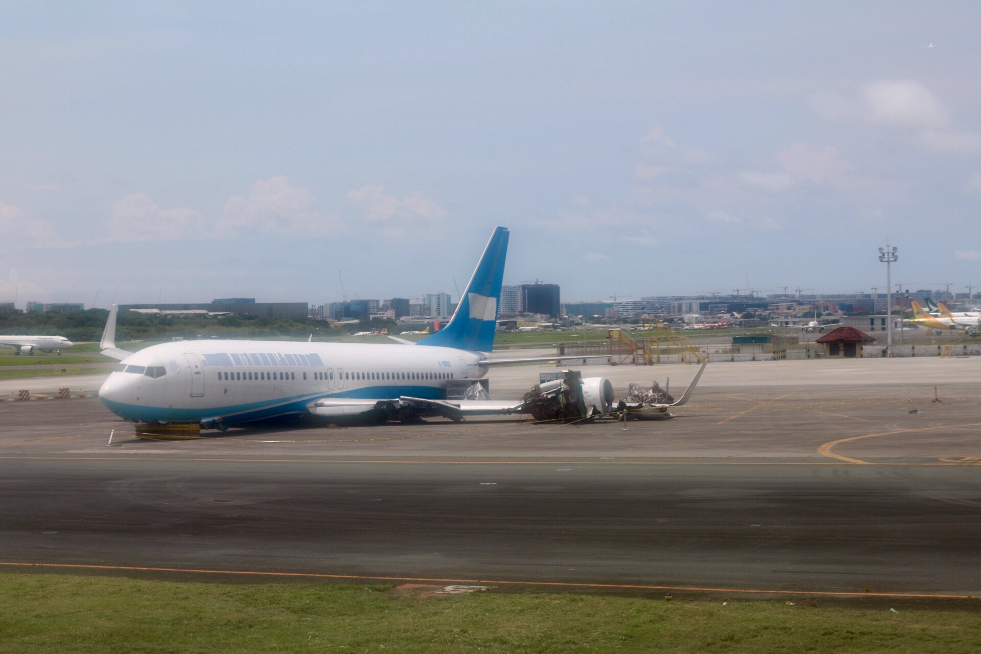 Debris of XiamenAir B-5498 at Ninoy Aquino International Airport